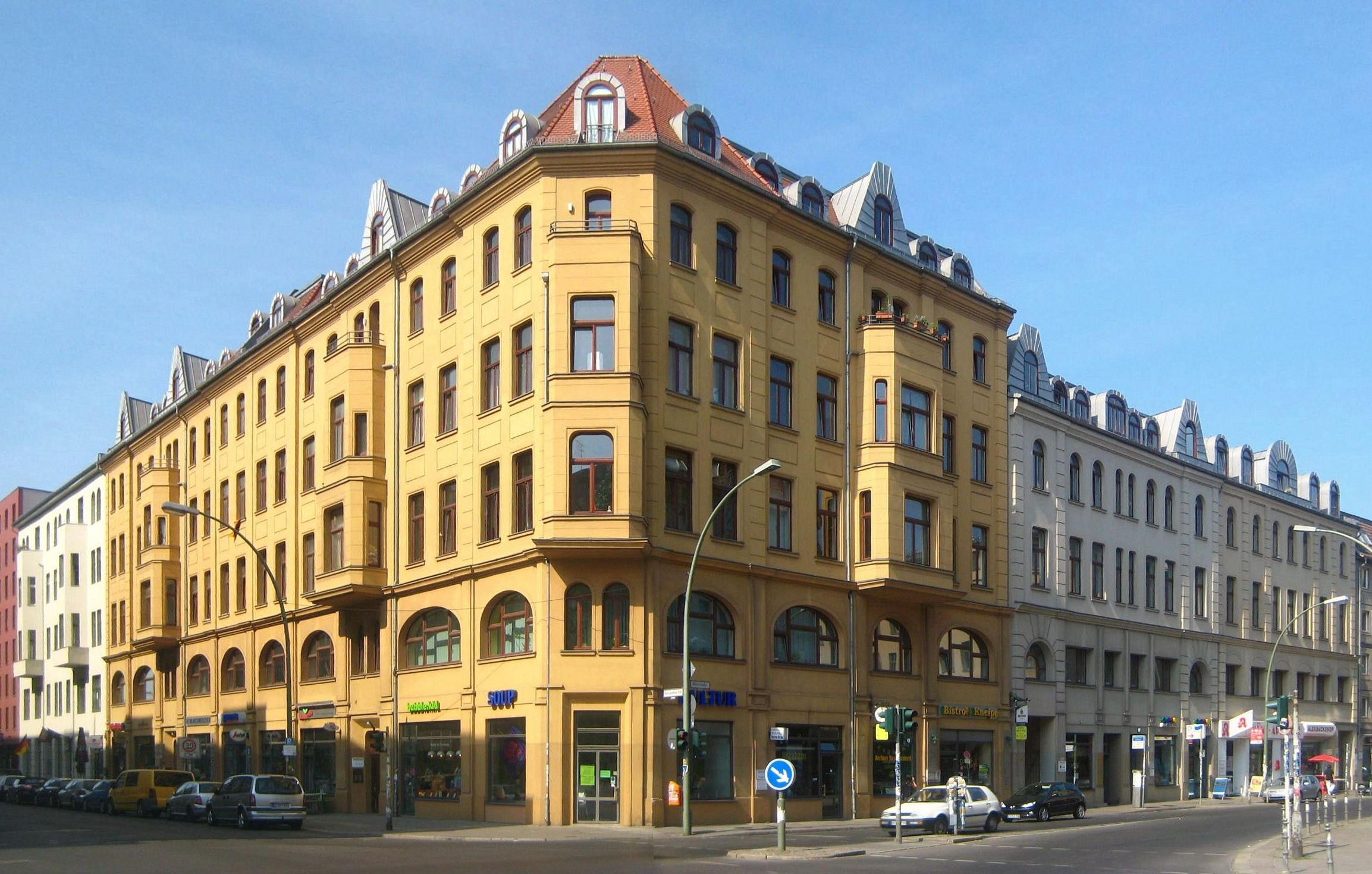 Residential and commercial building Münstraße No. 1/5, corner of Rosa-Luxemburgstraße No. 5/7 (left), in Berlin-Mitte. The building was constructed around 1890 to a design by August Leo Zaar. It is part of the protected historic buildings area Spandauer Vorstadt.